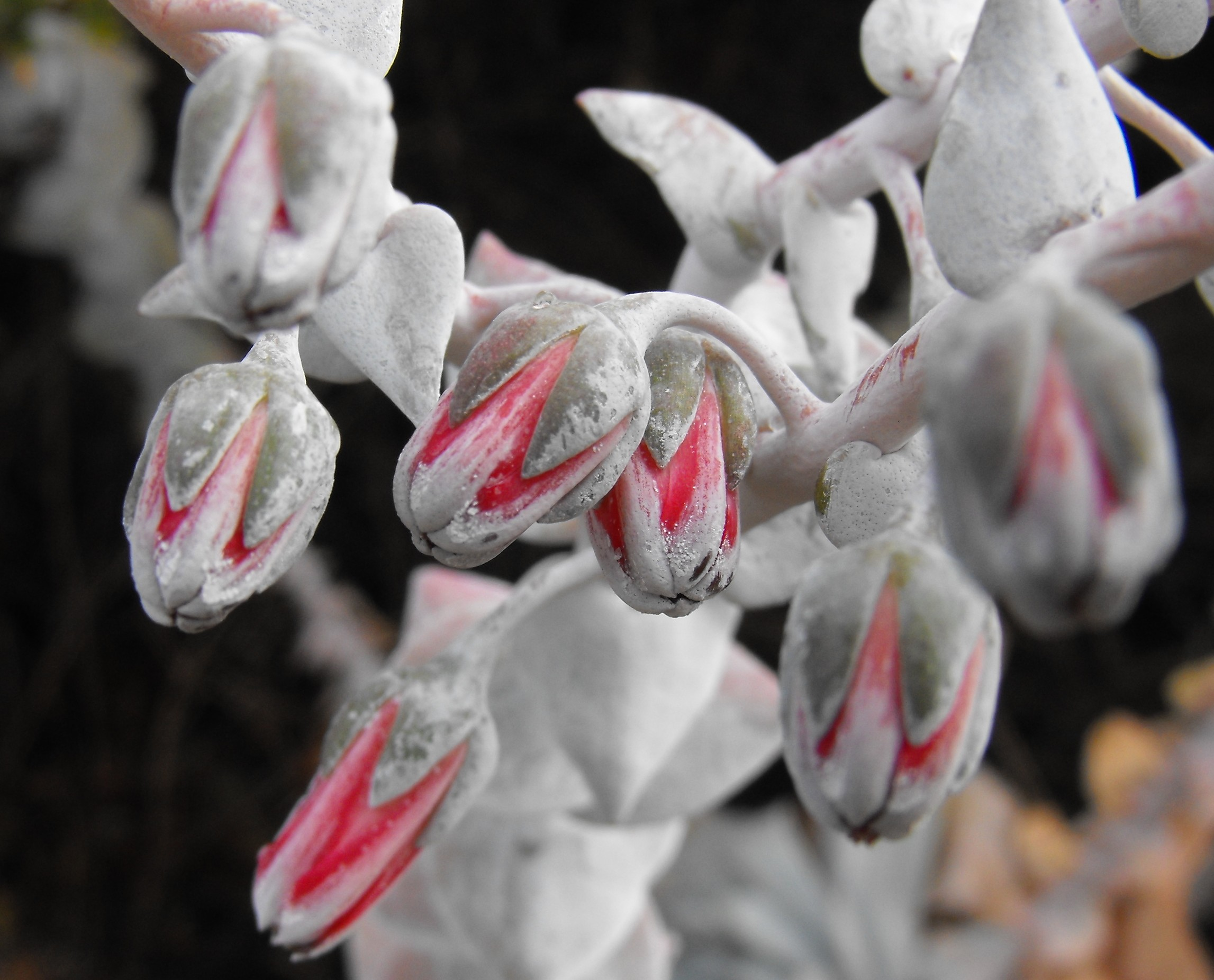 Dudleya pulverulenta. A cultivated specimen at the visitors center at San Elijo Lagoon Ecological Reserve in Cardiff, California, USA.